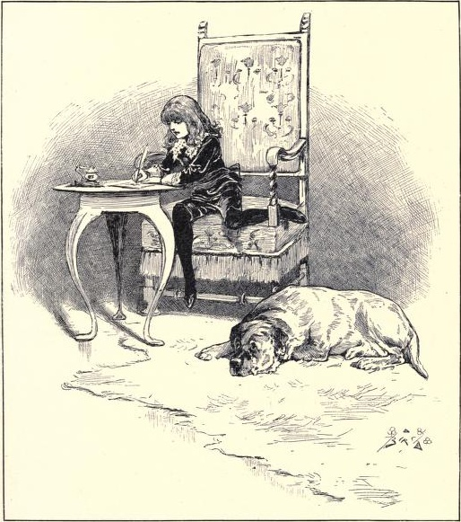 Illustration page 103 de Little Lord Fauntleroy de Frances Hodgson Burnett, New-York, Charles Scribner's sons, 1886 [1]